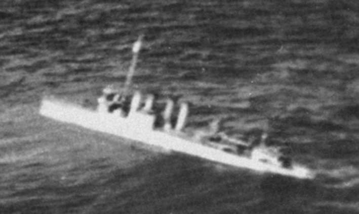 A U.S. Navy Clemson-class destroyer sinking during the Japanese Dutch East Indies Campaing, probably USS Pope (DD-225).